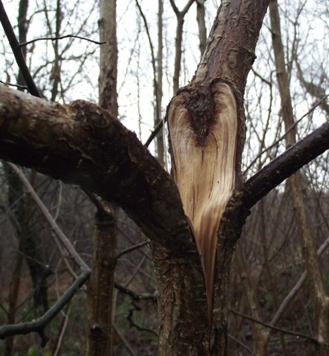 This is an image of a junction of a hazel tree (Corylus avellana) that has split in a storm because it has bark in that junction